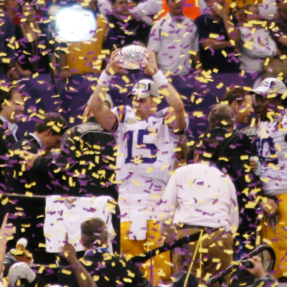 Quarterback Matt Flynn hoists the Crystal Trophy